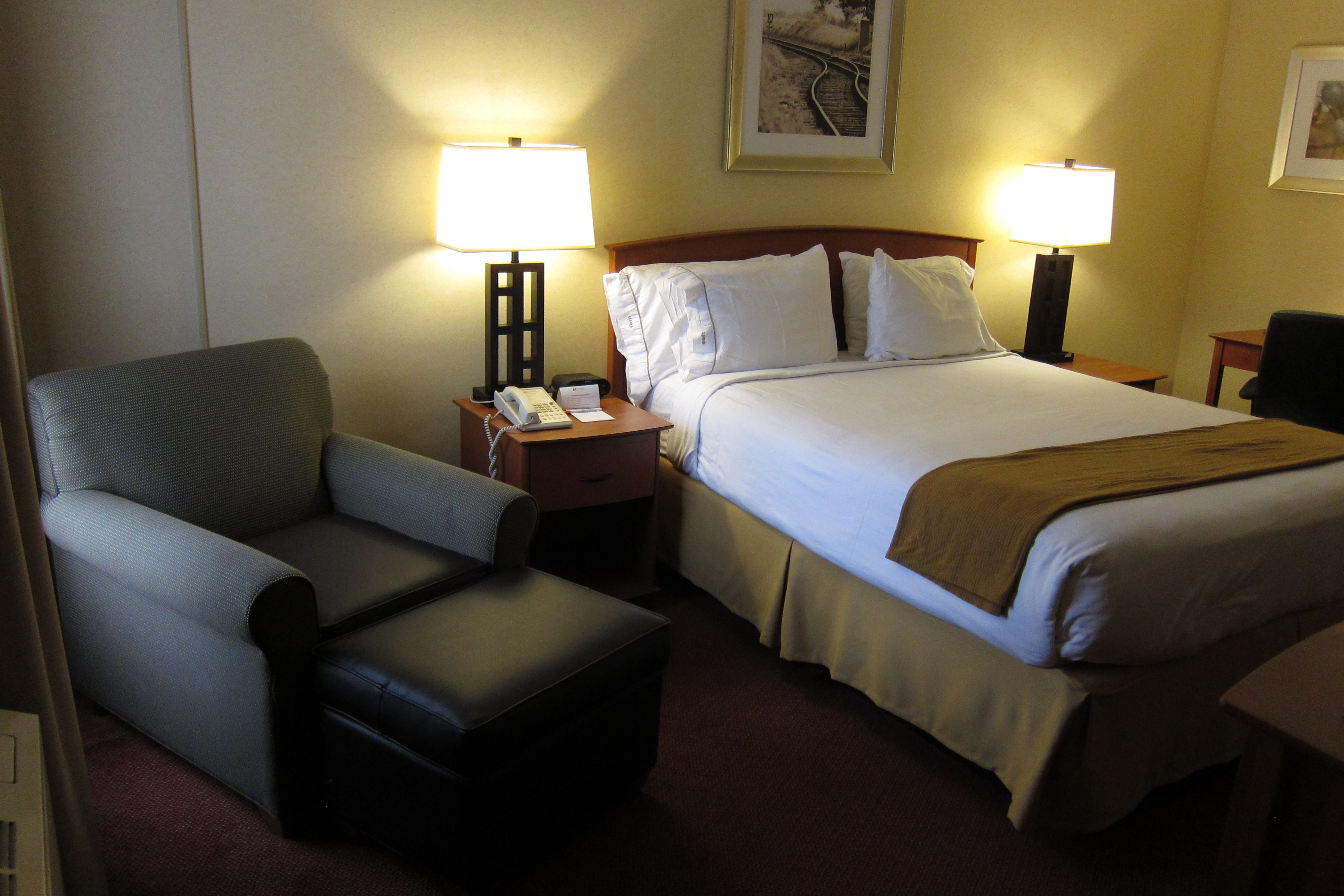 Guest room at IHG Army Hotel on Fort Gordon